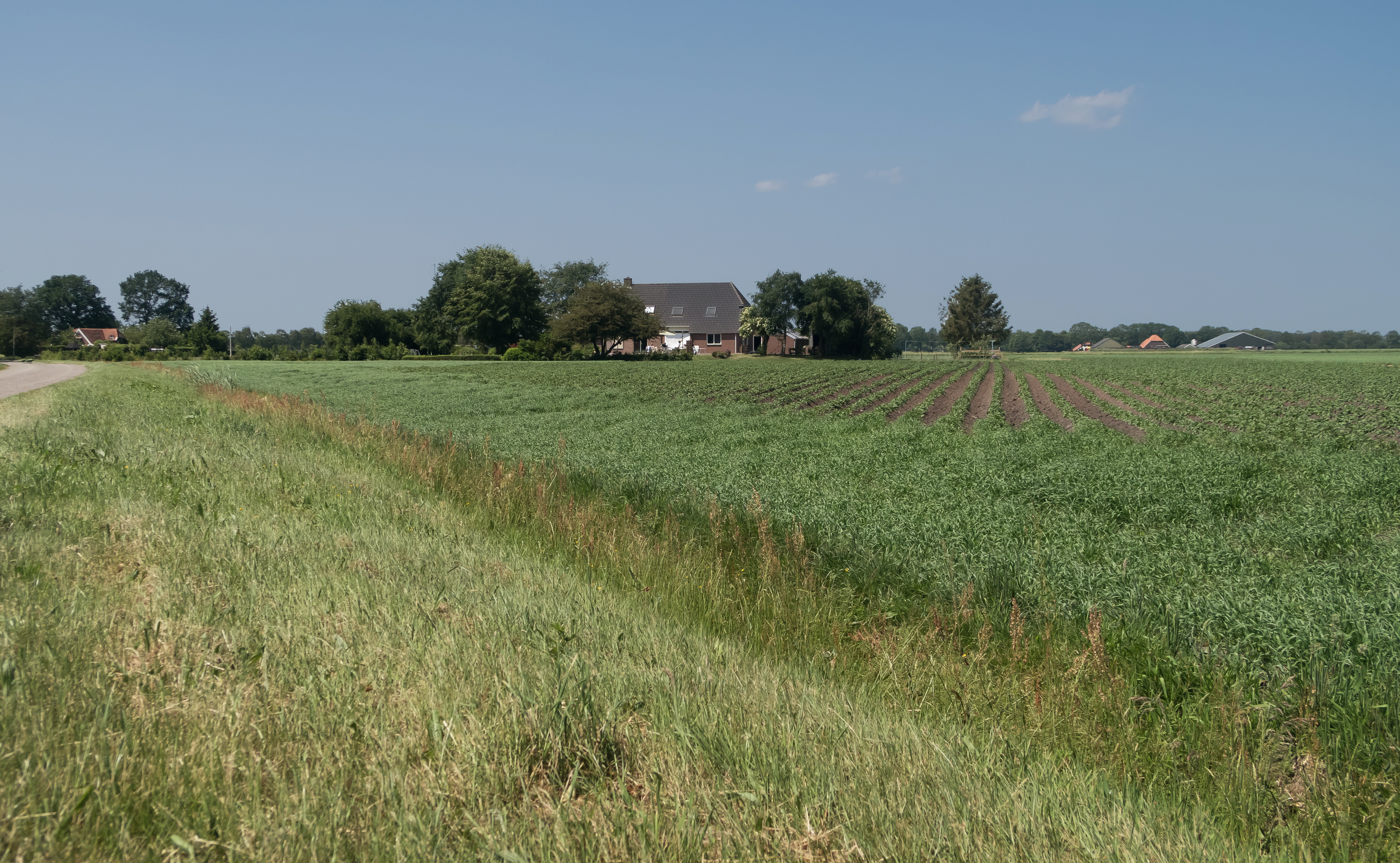 between Nieuw Balinge and Meppen, farm